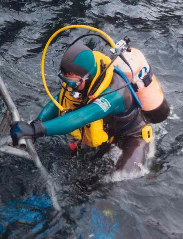 Buoyancy compensator - Adjustable buoyancy life jacket.